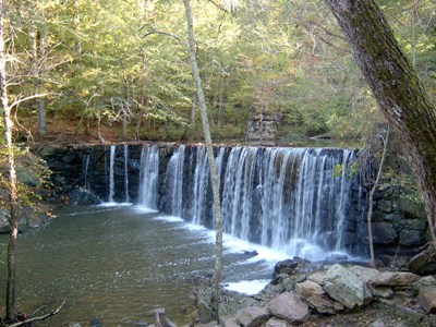 Dam at Cedarock Park, Alamance County, NC. Image Created by Alamance County and released under Creative Commons Licensing.